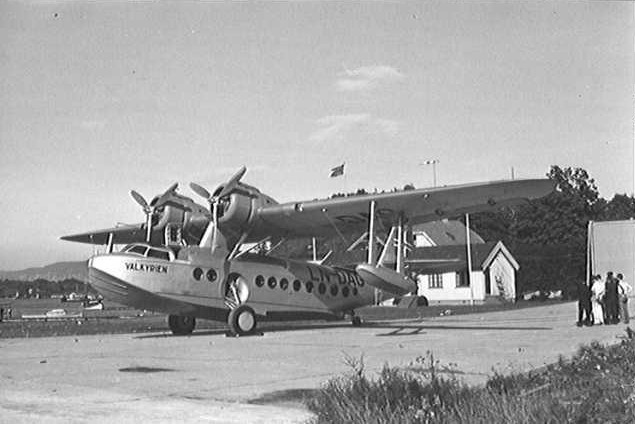 The Sikorsky S-43 LN-DAG Valkyrien belonging to the Norwegian airline company Det Norske Luftfartselskap (DNL) at the seaplane base Gressholmen Airport near Oslo in Norway.